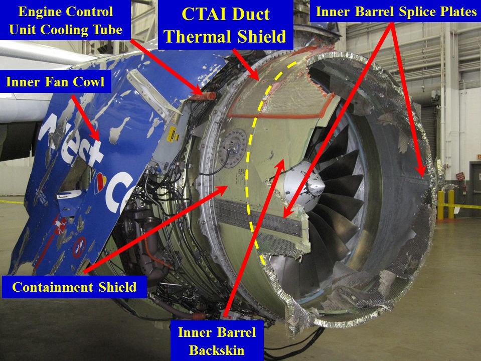 NTSB update May 3 2018 - Southwest Airlines Flight 1380 - N772SW - Figure 1 - Damage to cowl - inboard